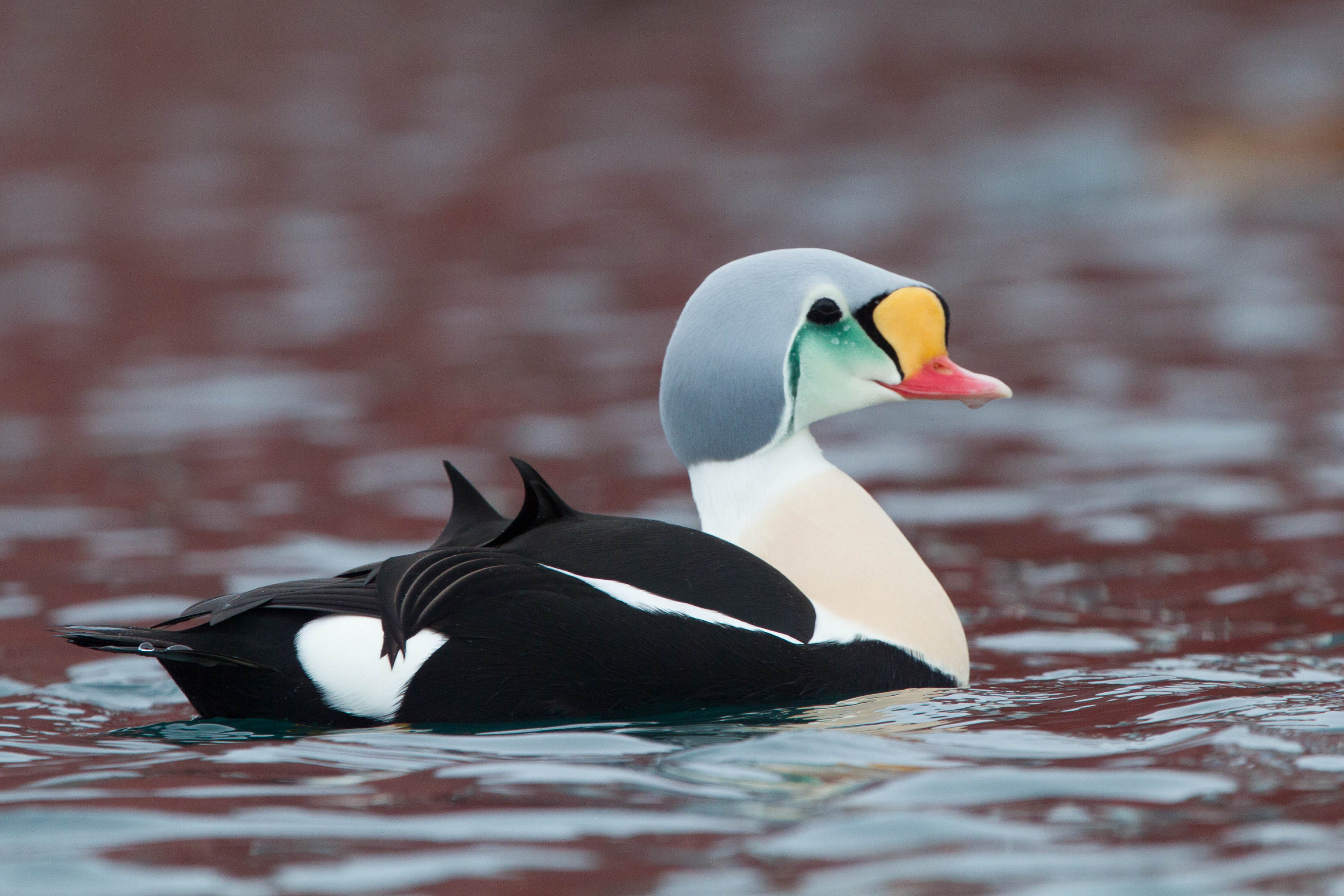 King Eider Somateria spectabilis, northern Norway